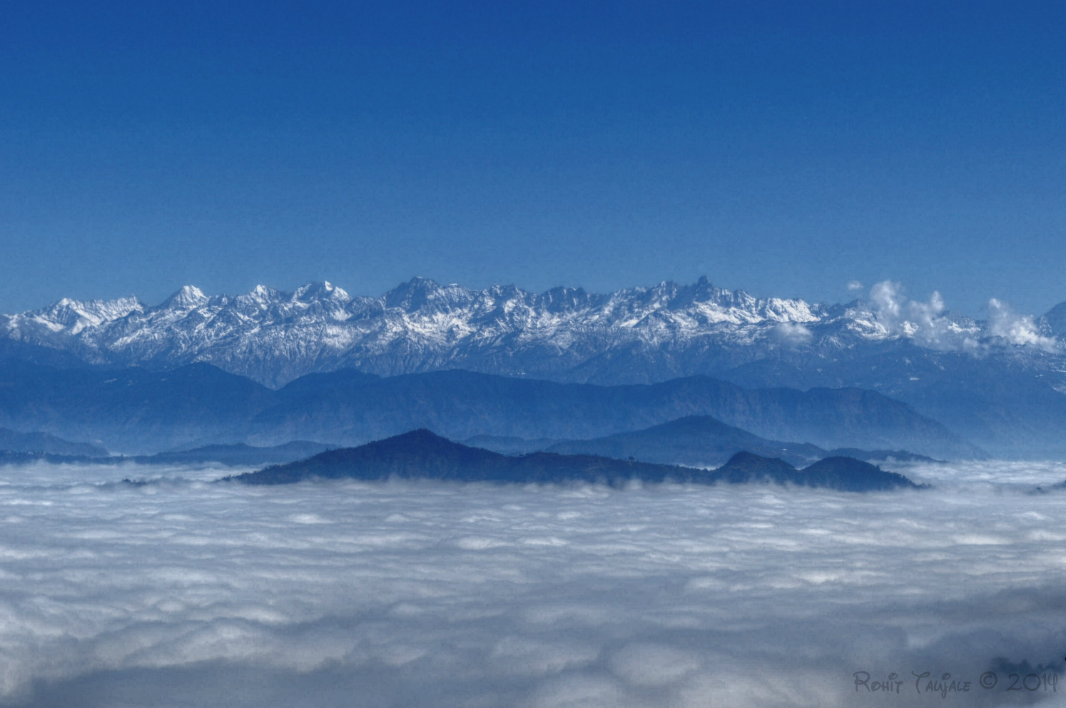 The Himalayan ranges seen from Dhulikhel.